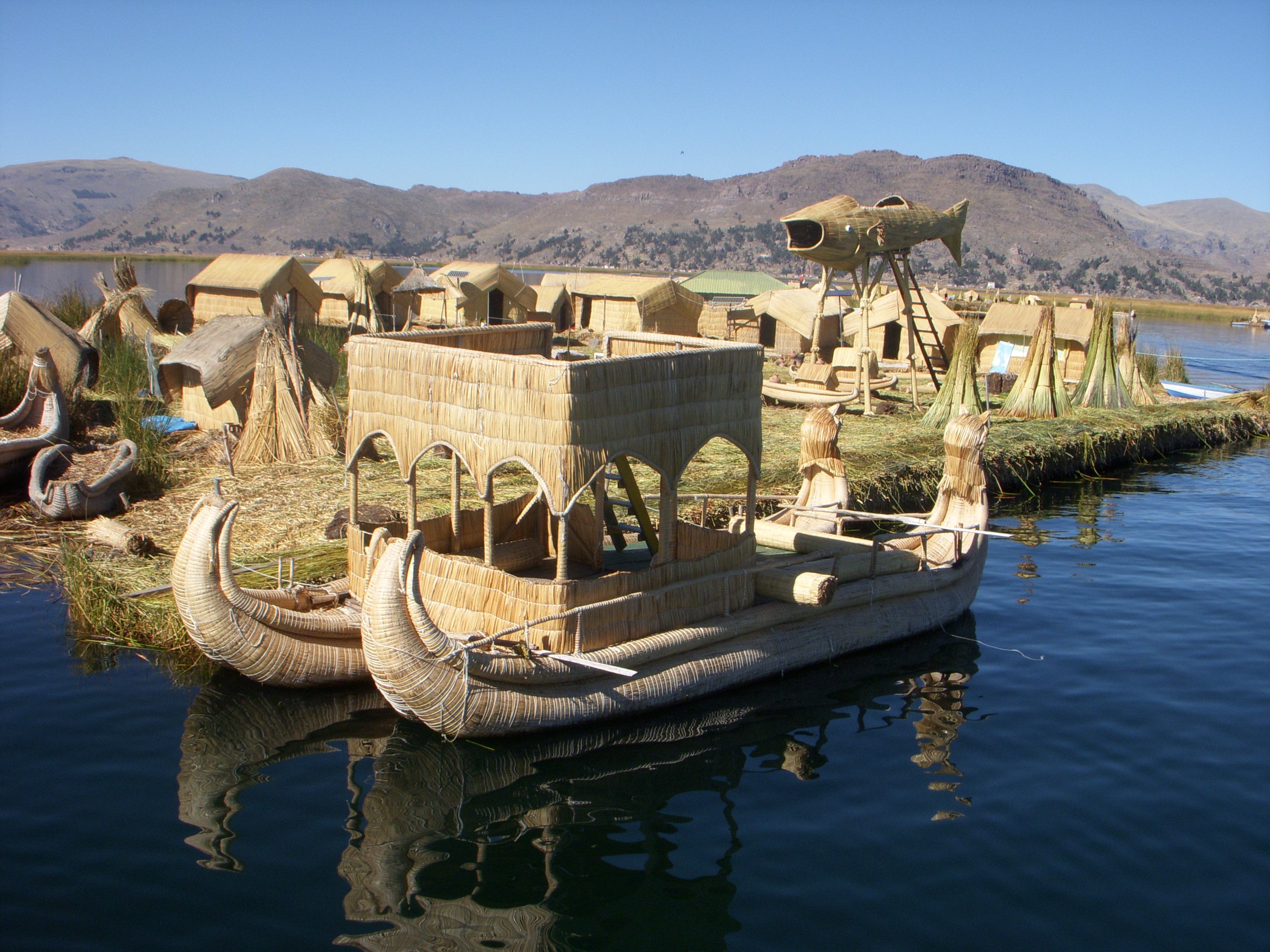 Picture of a Peruvian boat at the Floating Islands, on Lake Titicaca, Puno, Peru.